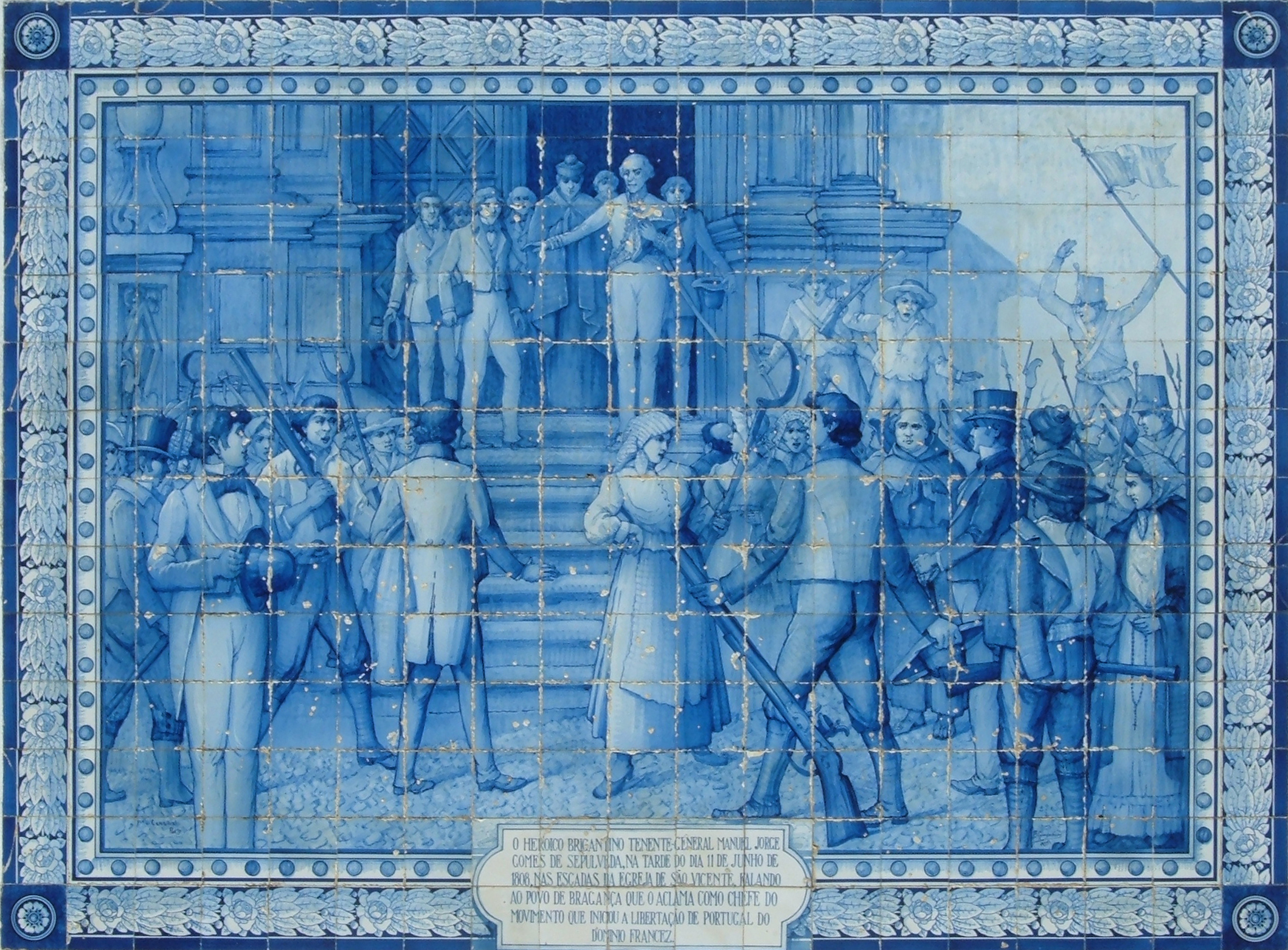 Azulejo panel in Saint Vincent's Church, Bragança, Portugal, depicting the call by Manoel Jorge Gomes de Sepúlveda in year 1808 to the uprising against the napoleonic occupation.